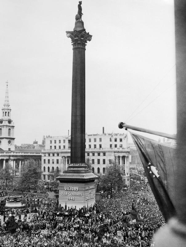 Ve Day Celebrations in London, 8 May 1945 Crowds gather in Trafalgar Square, London.